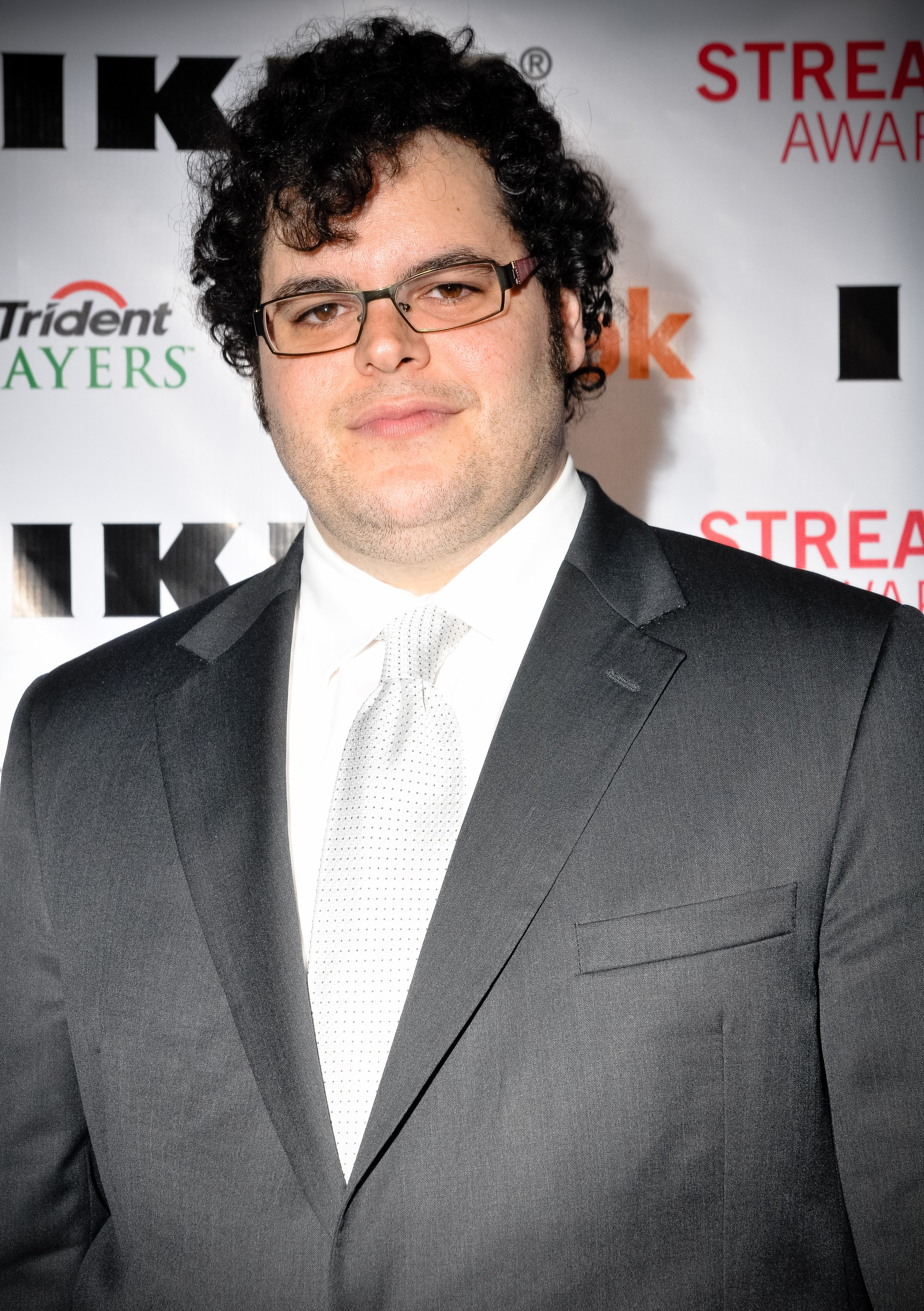 Josh Gad at the 2nd Streamy Awards.